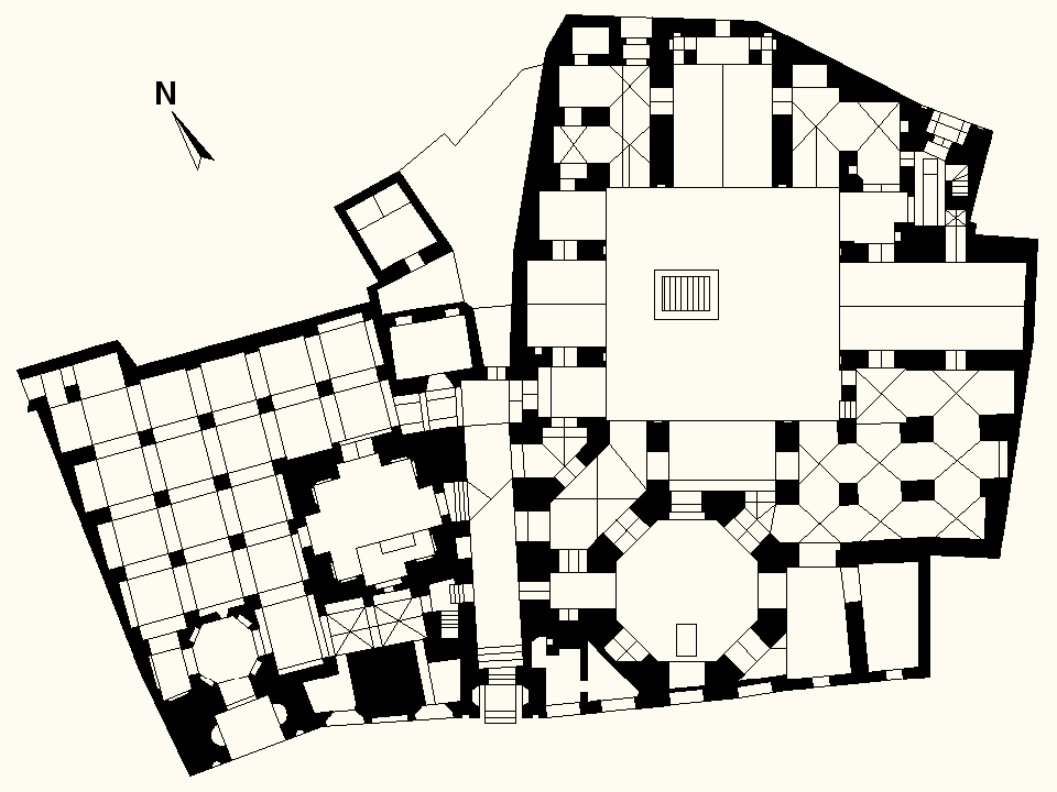 Jameh Mosque Complex in Natanz